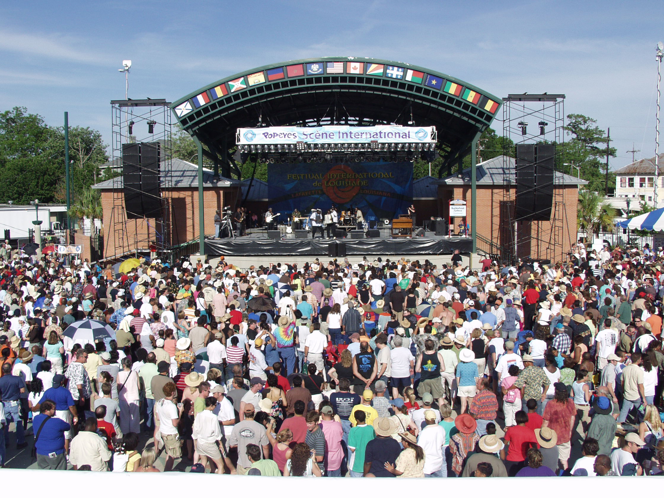 The main stage at the 2006 Festival International in Lafayette, Louisiana. Buckwheat Zydeco is performing.